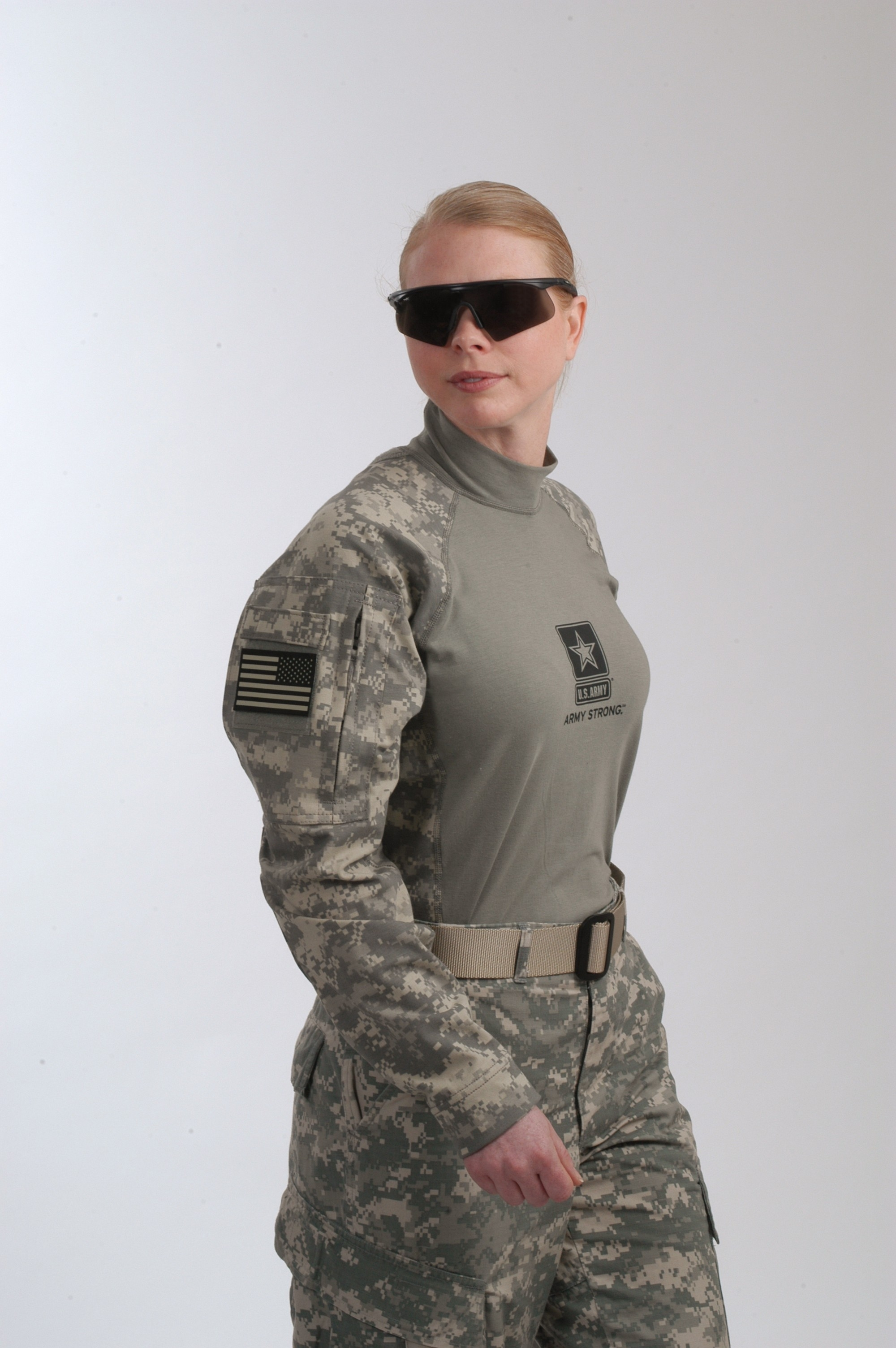 A U.S. Army soldier wearing the Army Combat Shirt in May 2007. The new improved Army Combat Shirt for women will be issued to soldiers deploying to Iraq and Afghanistan.